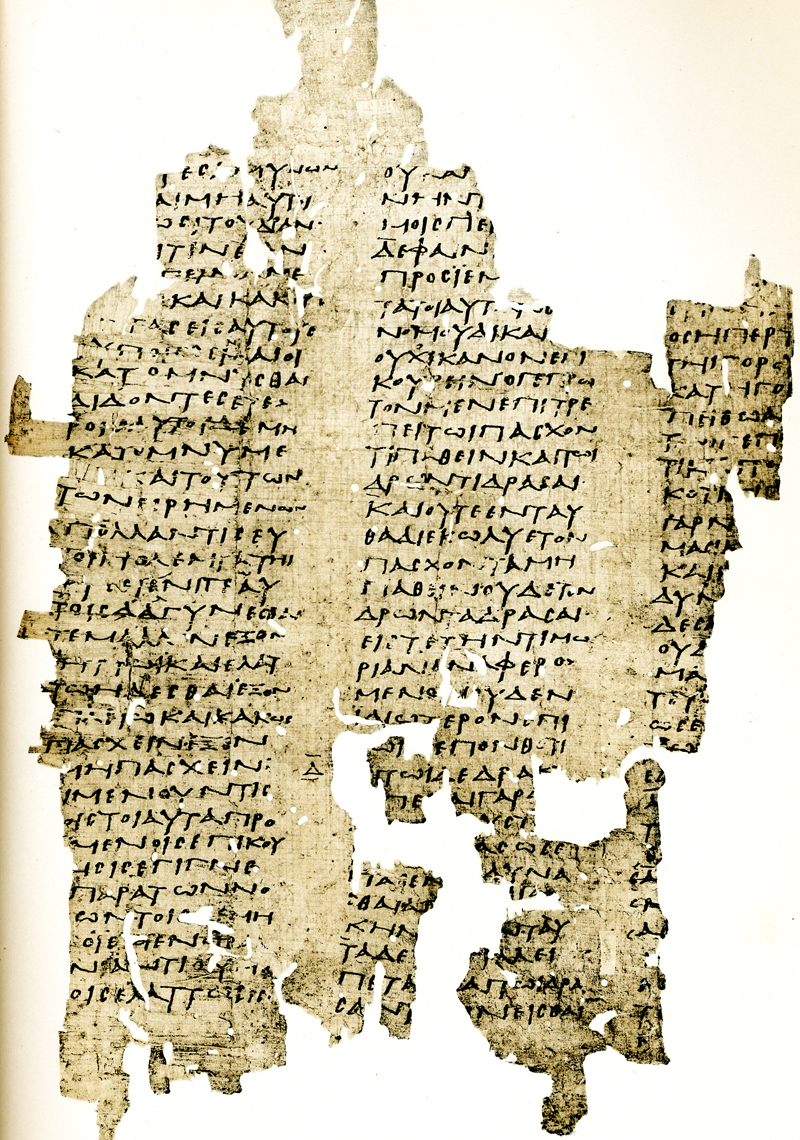 A 3rd century CE papyrus attributed to Antiphon' Peri aletheias Bk. I